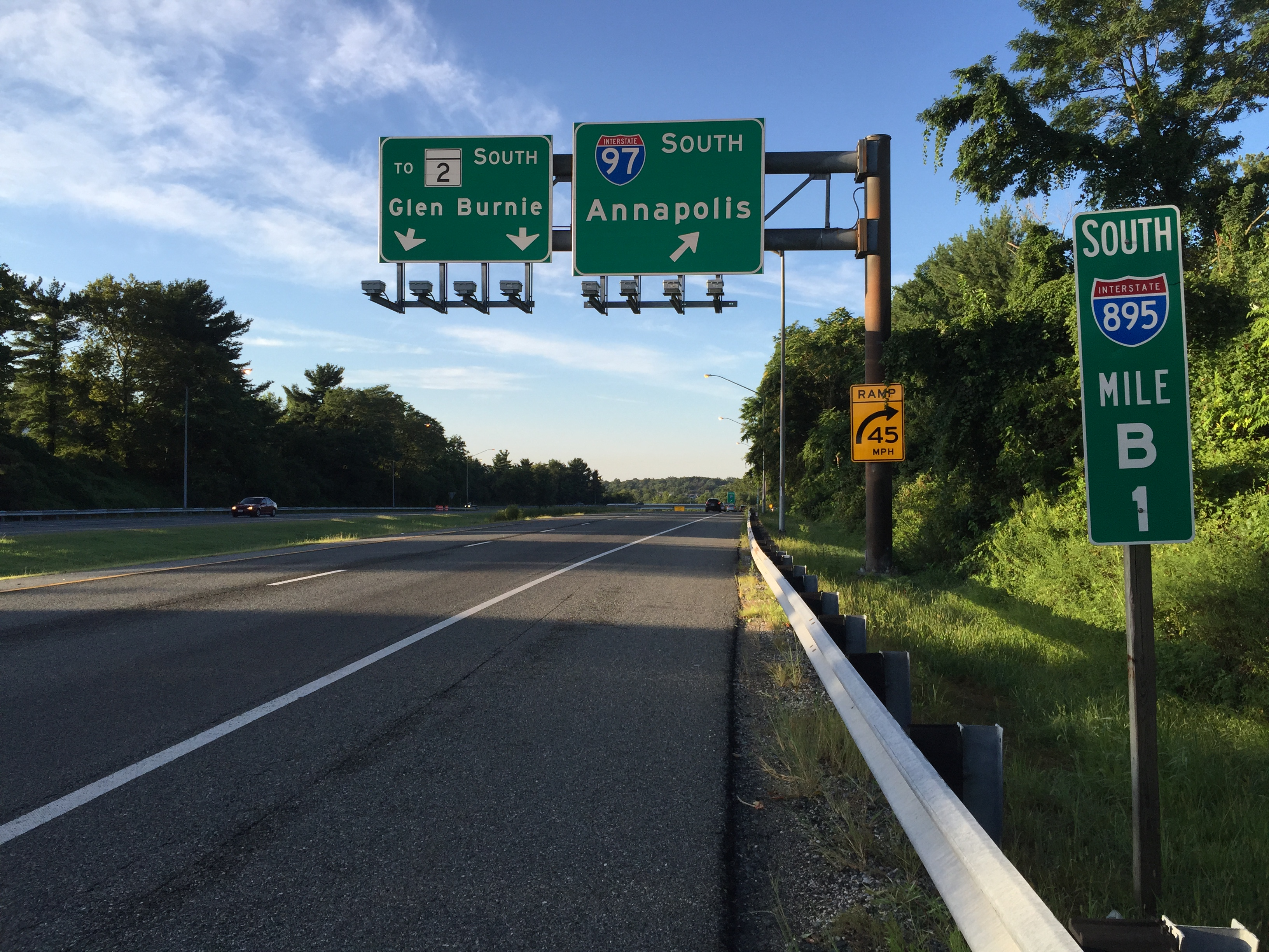 View south along Interstate 895B (Baltimore Harbor Tunnel Thruway - Governor Ritchie Highway Connector) just south of Hammonds Lane in Brooklyn Park, Anne Arundel County, Maryland